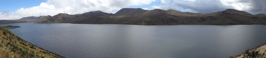 A Panoramic photo of a lake in the Andes Mountains ( photographed two hour drive outside of Quito.)